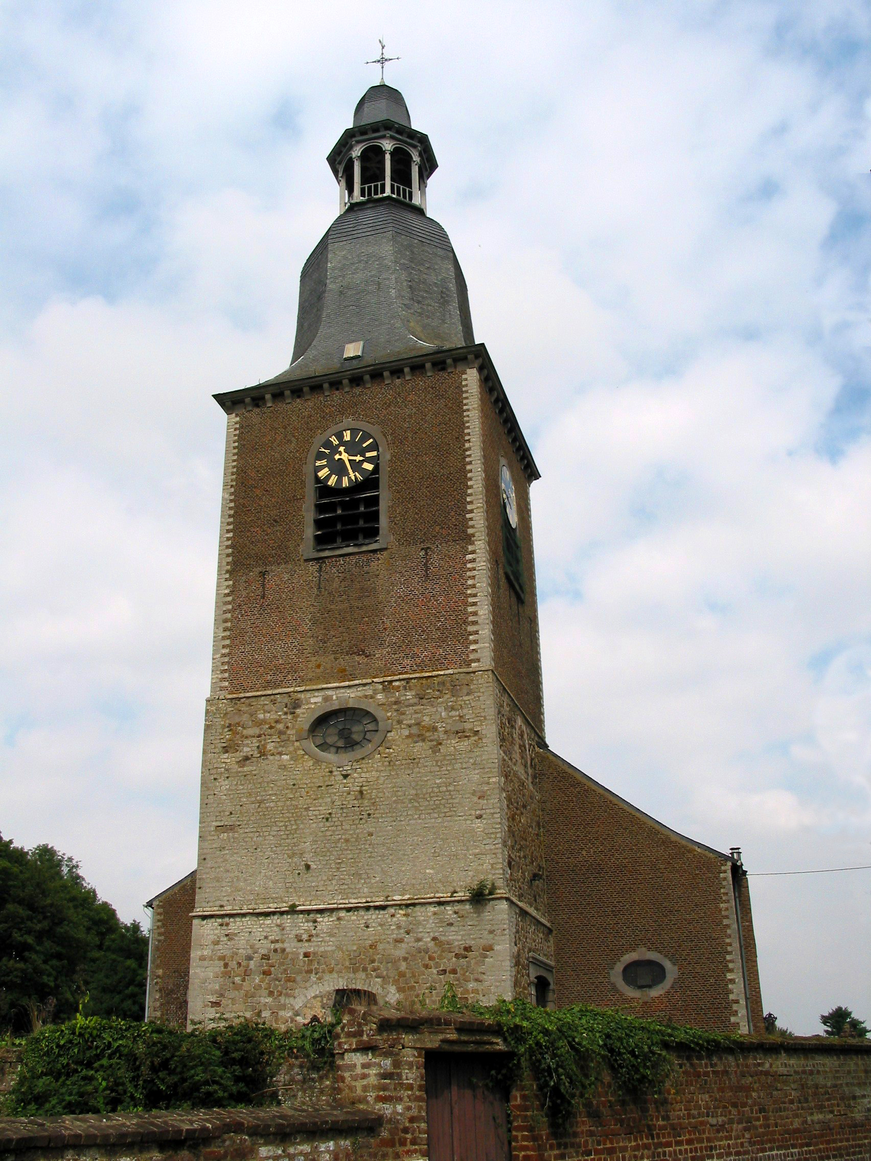 Perwez (Belgium), the St. Martin's church (Restored in 1840).